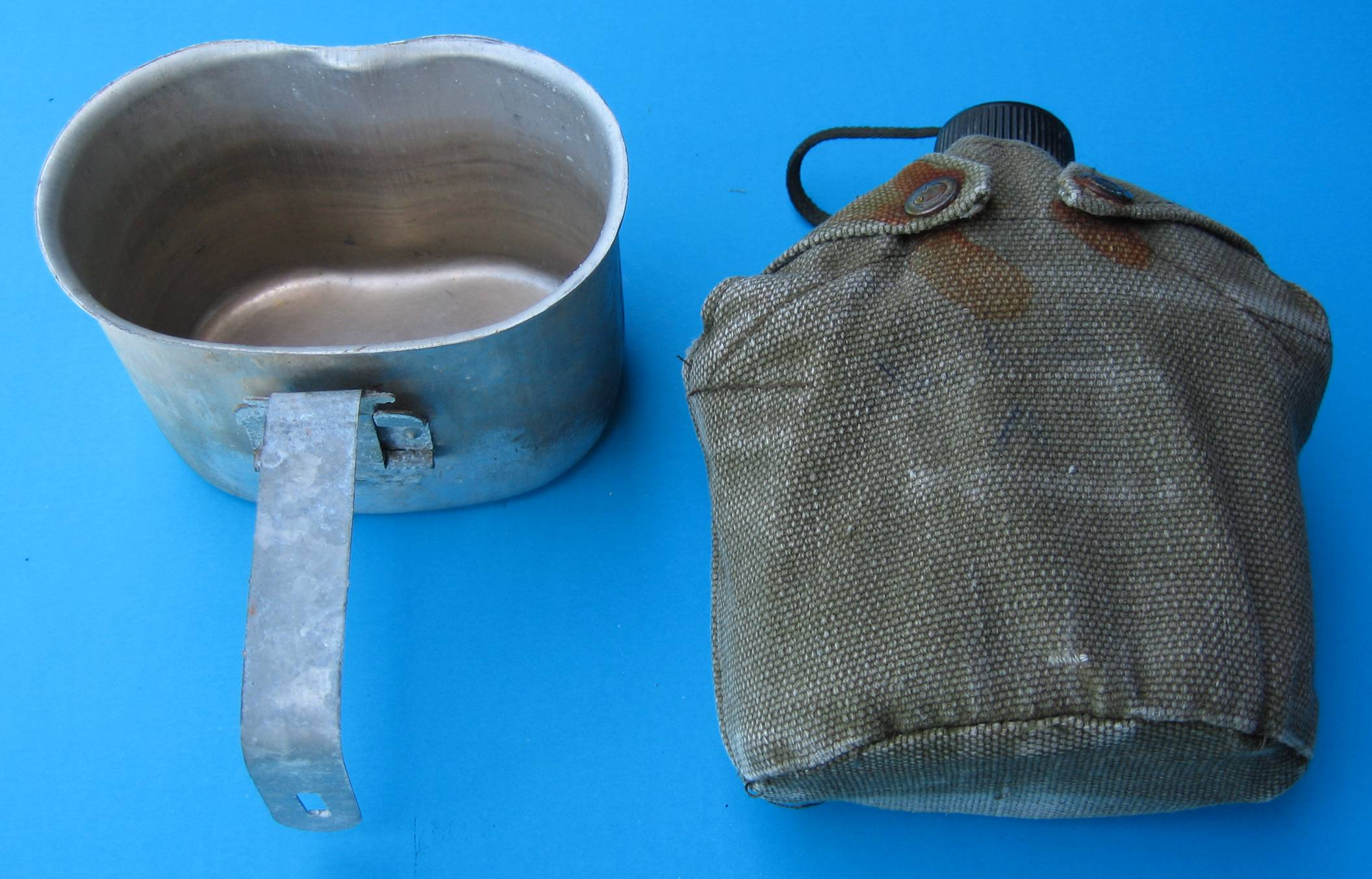 Saddam era military canteen with nested canteen cup and cover obtained from Fallujah in Fall 2004 during Operation Iraqi Freedom.